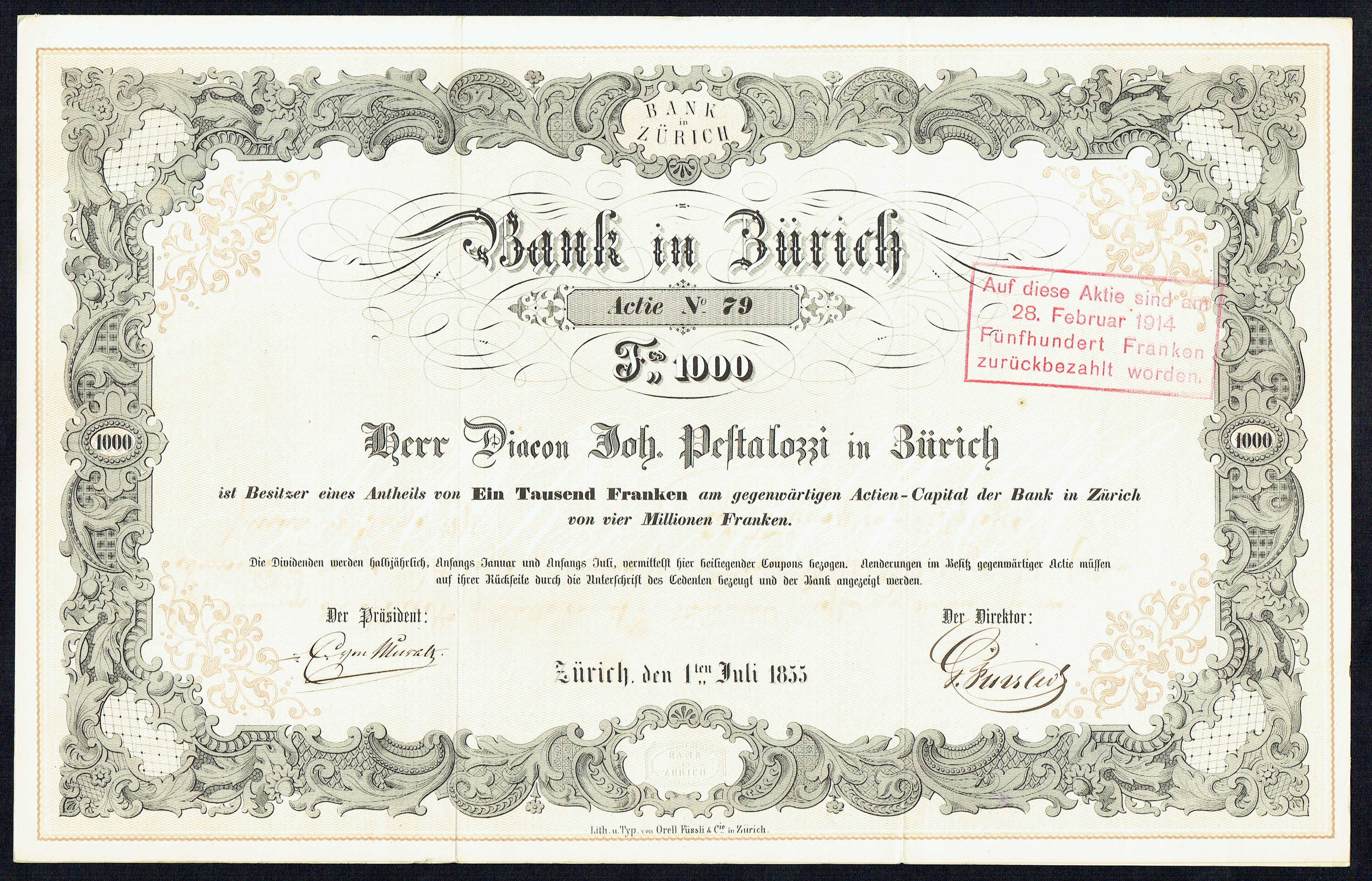 Share of the Bank in Zürich, issued 1. July 1855